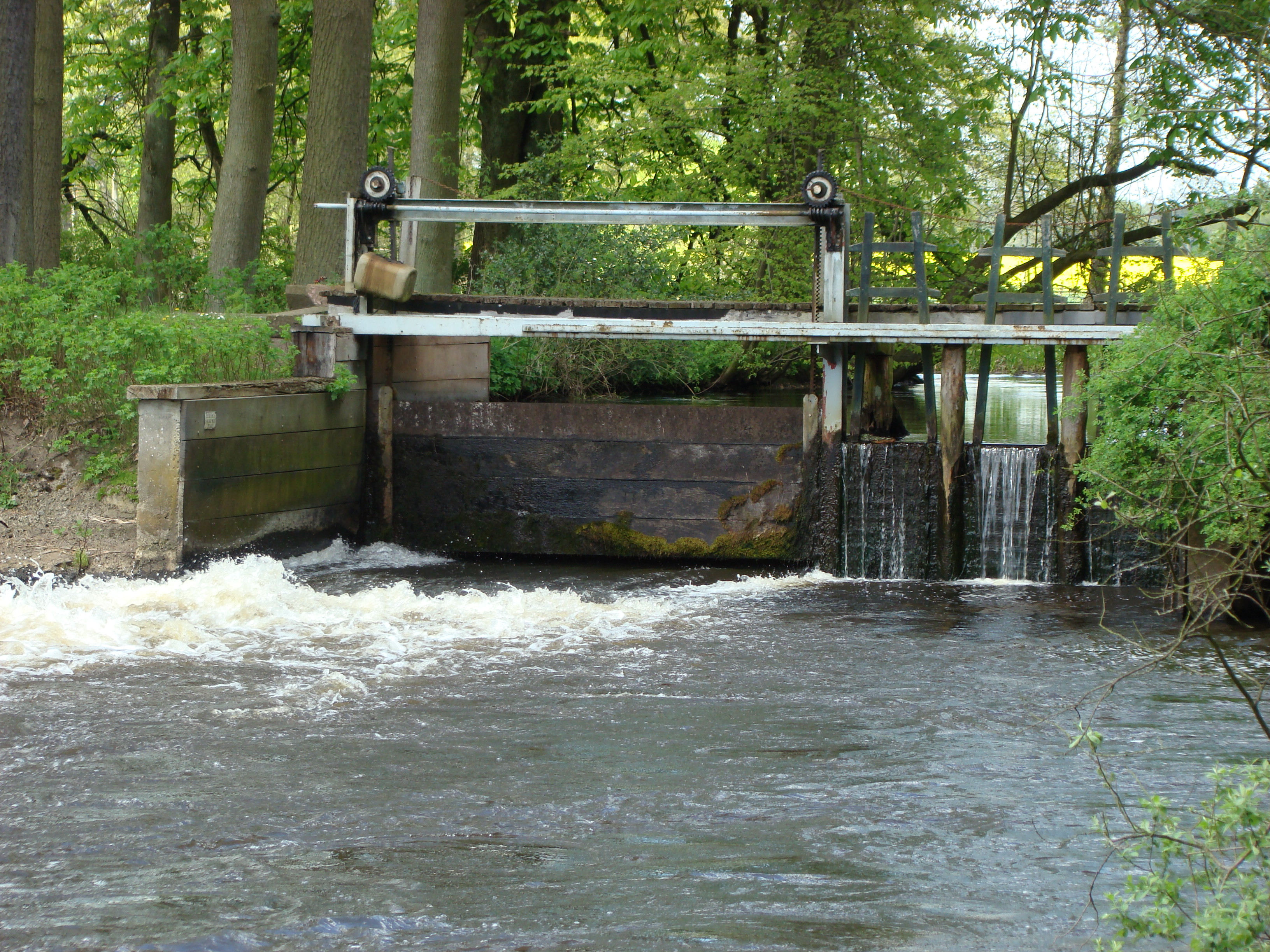 The weir in Wolthausen, Germany